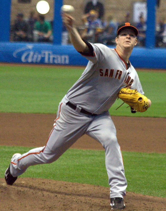 Matt Cain pitching at a game at Miller Park in 2011